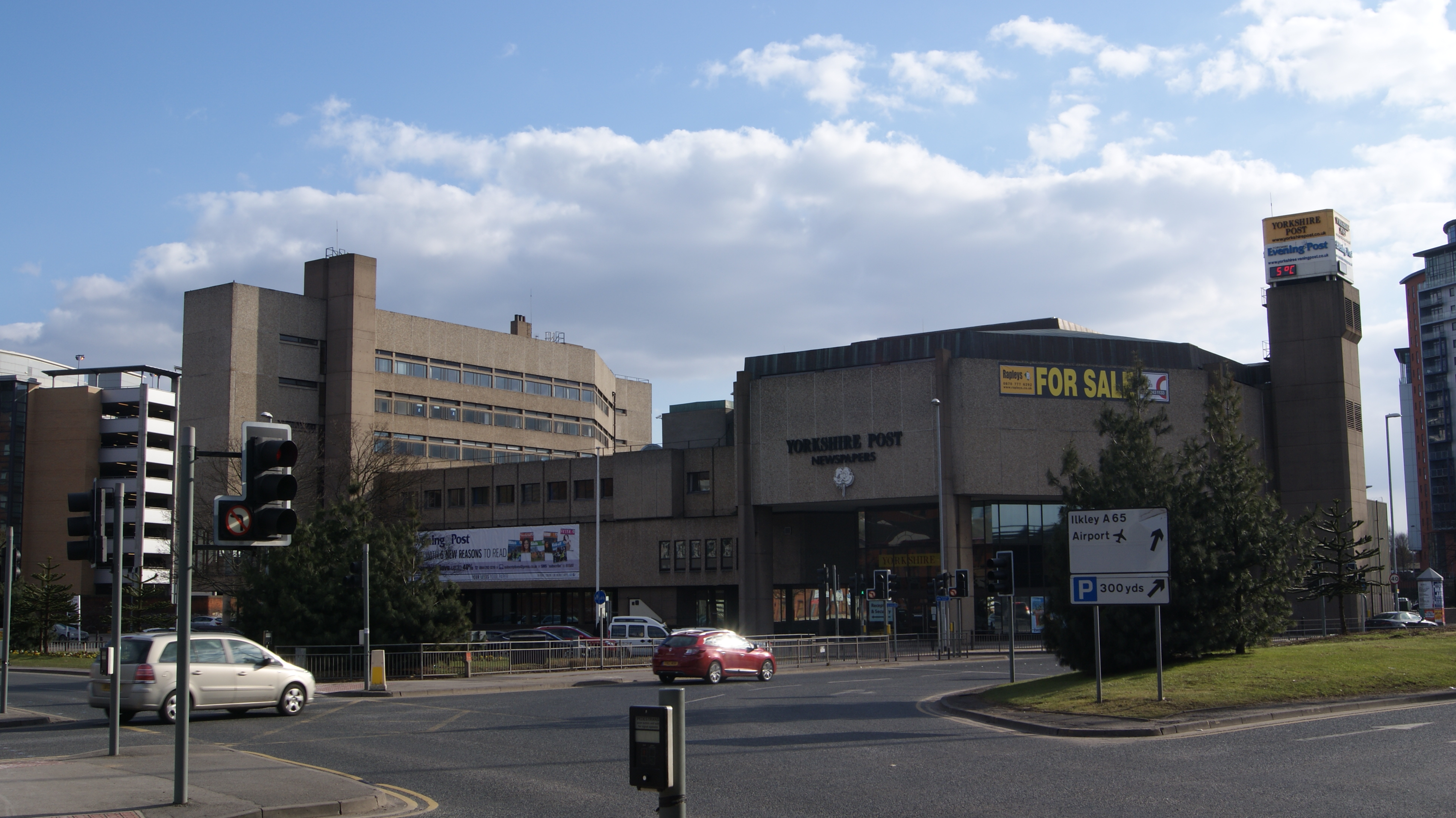 Yorkshire Post building, Wellington Street, Leeds, West Yorkshire. Taken on the afternoon of Saturday the 30th of March 2013.